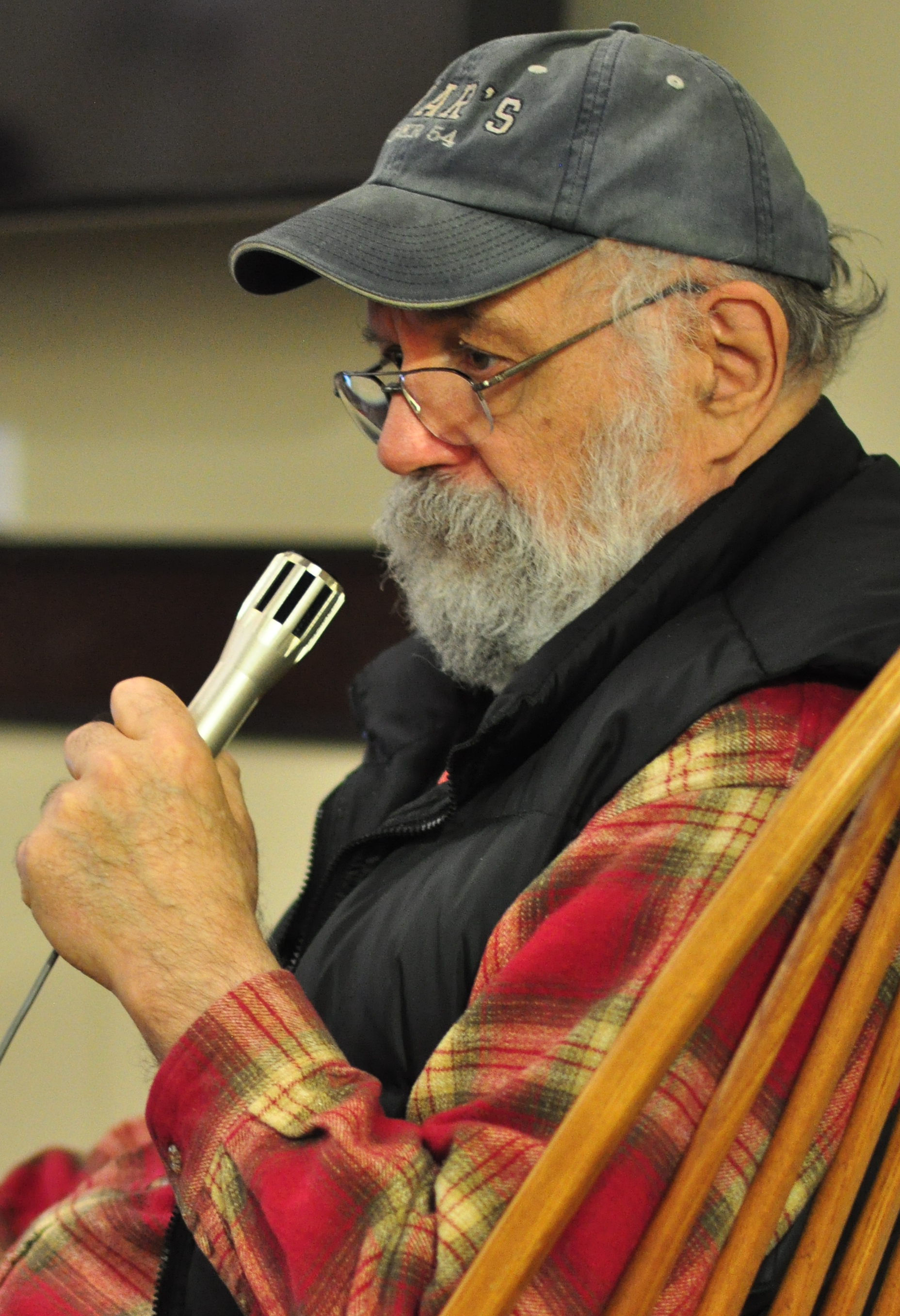 Seattle, Washington historian Paul Dorpat, photographed during a Southwest Seattle Historical Society talk at the West Seattle Public Library.